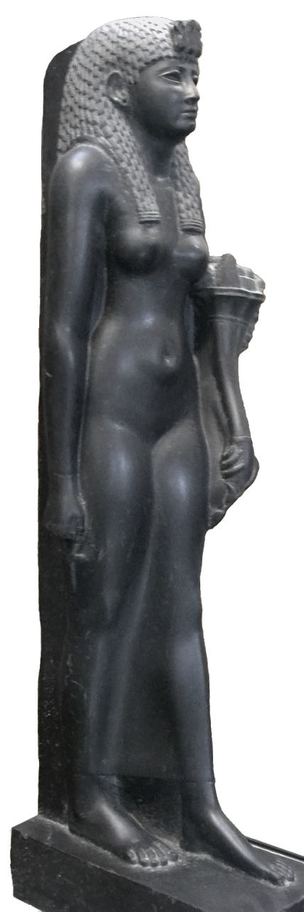 Black basalt statue of the Ptolemaic period, height 105 cm, from Hermitage's Ancient Egyptian collection (Peterburg, Russia). In 2002 the statue was identified as Cleopatra VII of Egypt. More info at : [1]